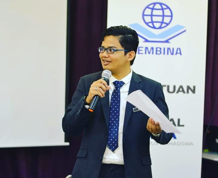 azlan wildan